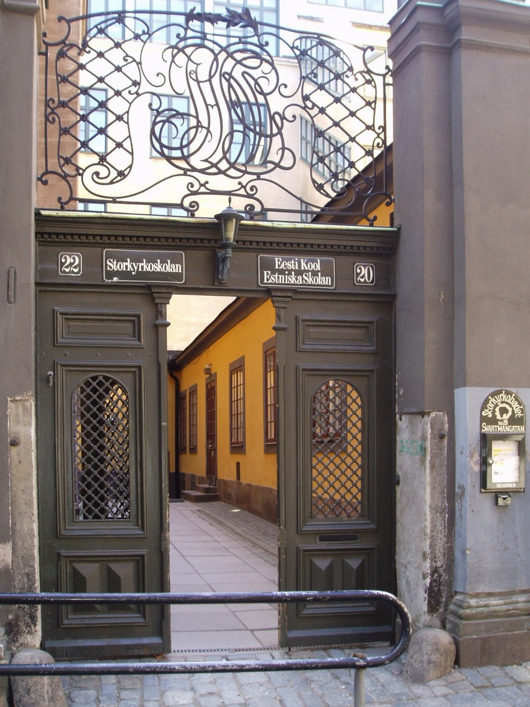 Estniska skolan, school in Stockholm